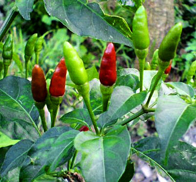 Siling labuyo